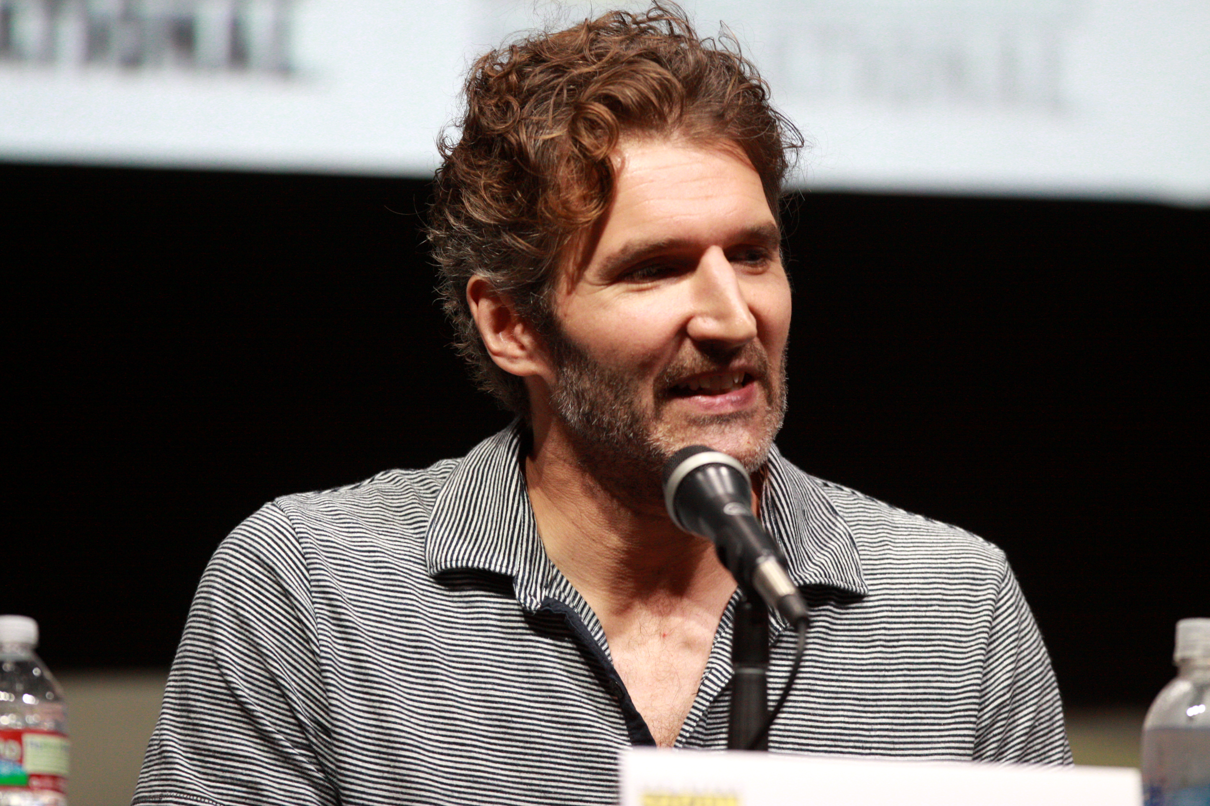 David Benioff speaking at the 2013 San Diego Comic Con International, for "Game of Thrones", at the San Diego Convention Center in San Diego, California.